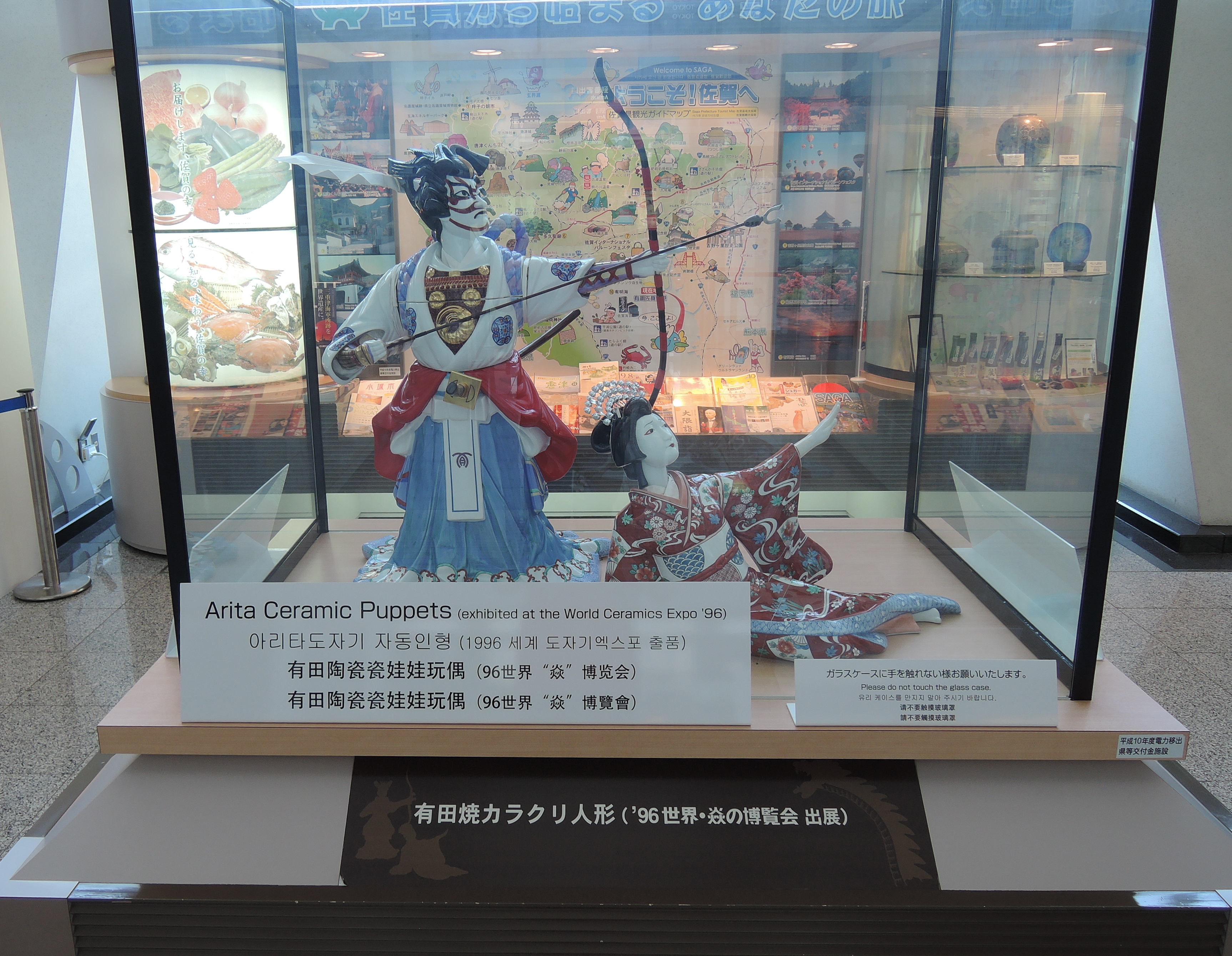 Arita Ceramic Puppets displayed on Saga Airport (exhibited at the World Ceramics Exposition in SAGA 96)